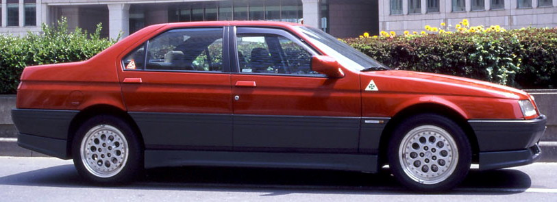 Description: Alfa164 Q4 (E-164K1H) Source: Toshi_156 Auther: Toshi_156 Location: Shinjuku,Tokyo,Japan